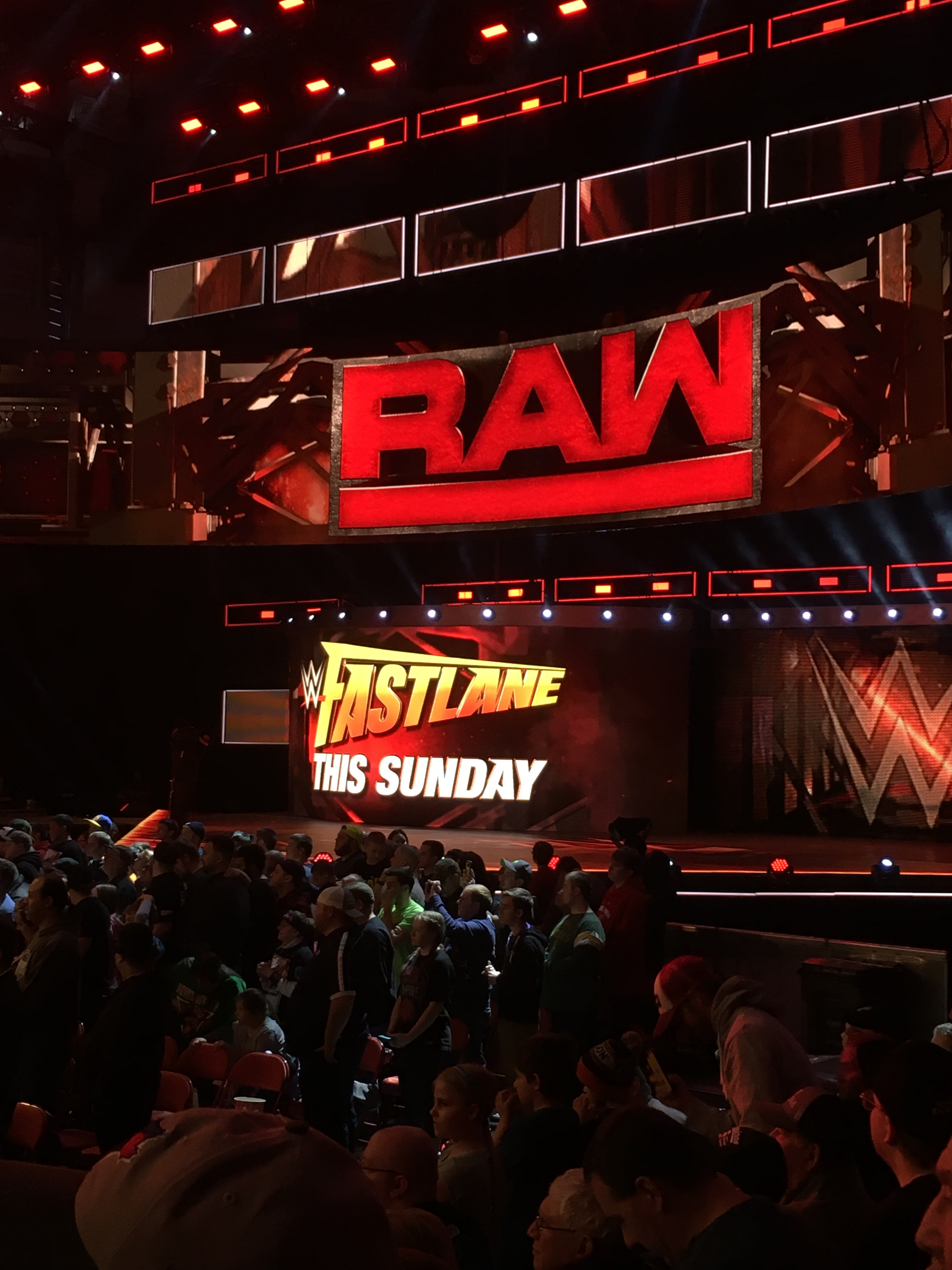 WWE Raw stage used since August 21, 2016, pictured here on February 27, 2017